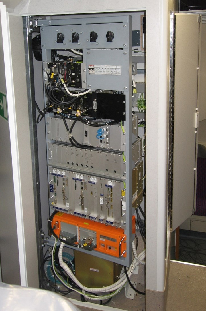 ETCS board equipment on ČD (Czech railways) EMU 471.042 - for test purposes. Česky: Zařízení ETCS na jednotce 471.042 ČD namontované pro účely zkušebního provozu